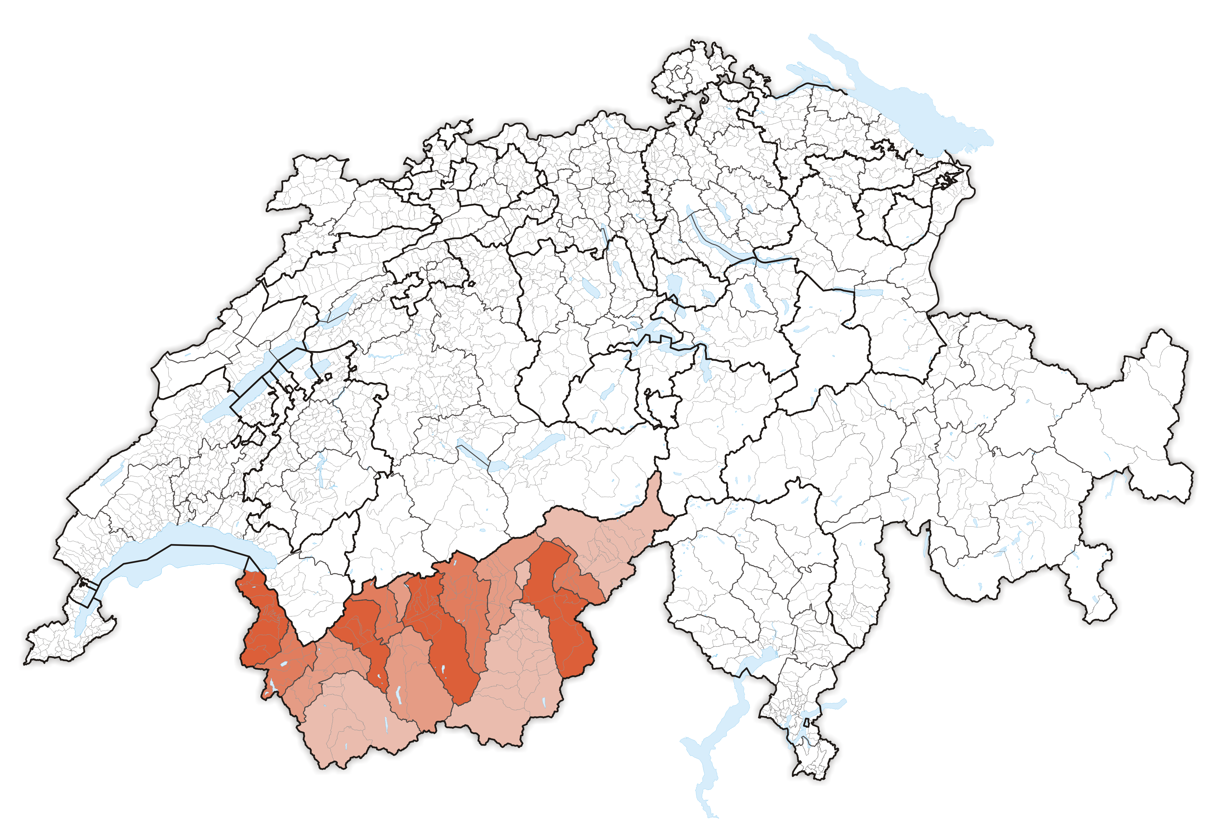 Canton Wallis